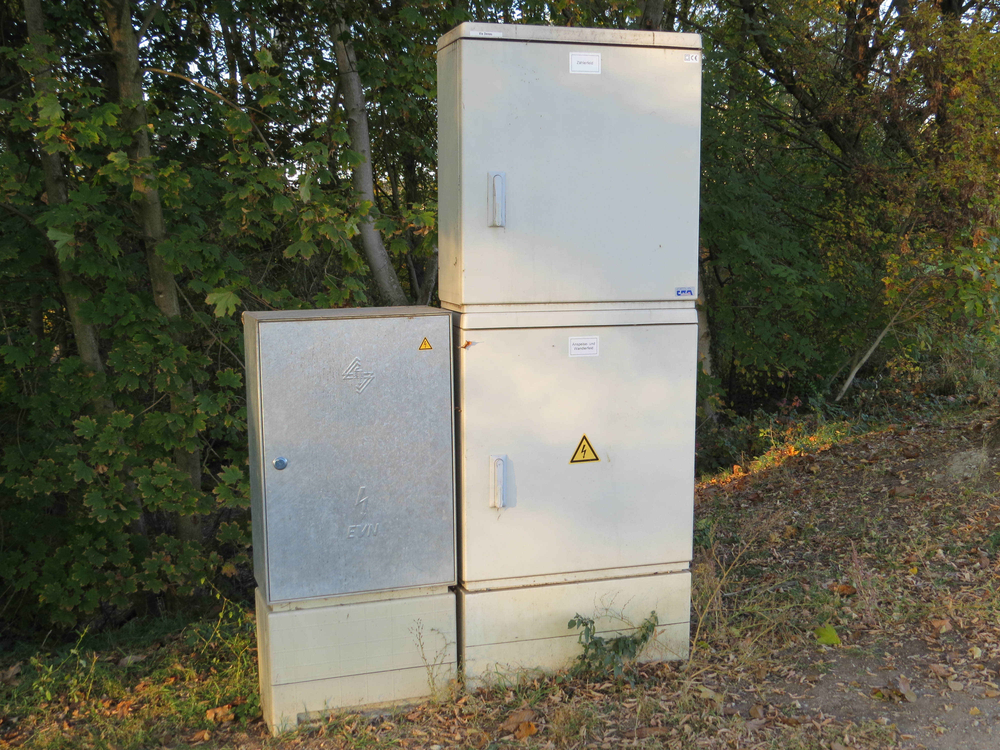 Outdoor energy measurement of Energieversorgung Niederösterreich (EVN) from ERA Elektrotechnik Ramsauer via transformers near Danube Krems an der Donau, Austria